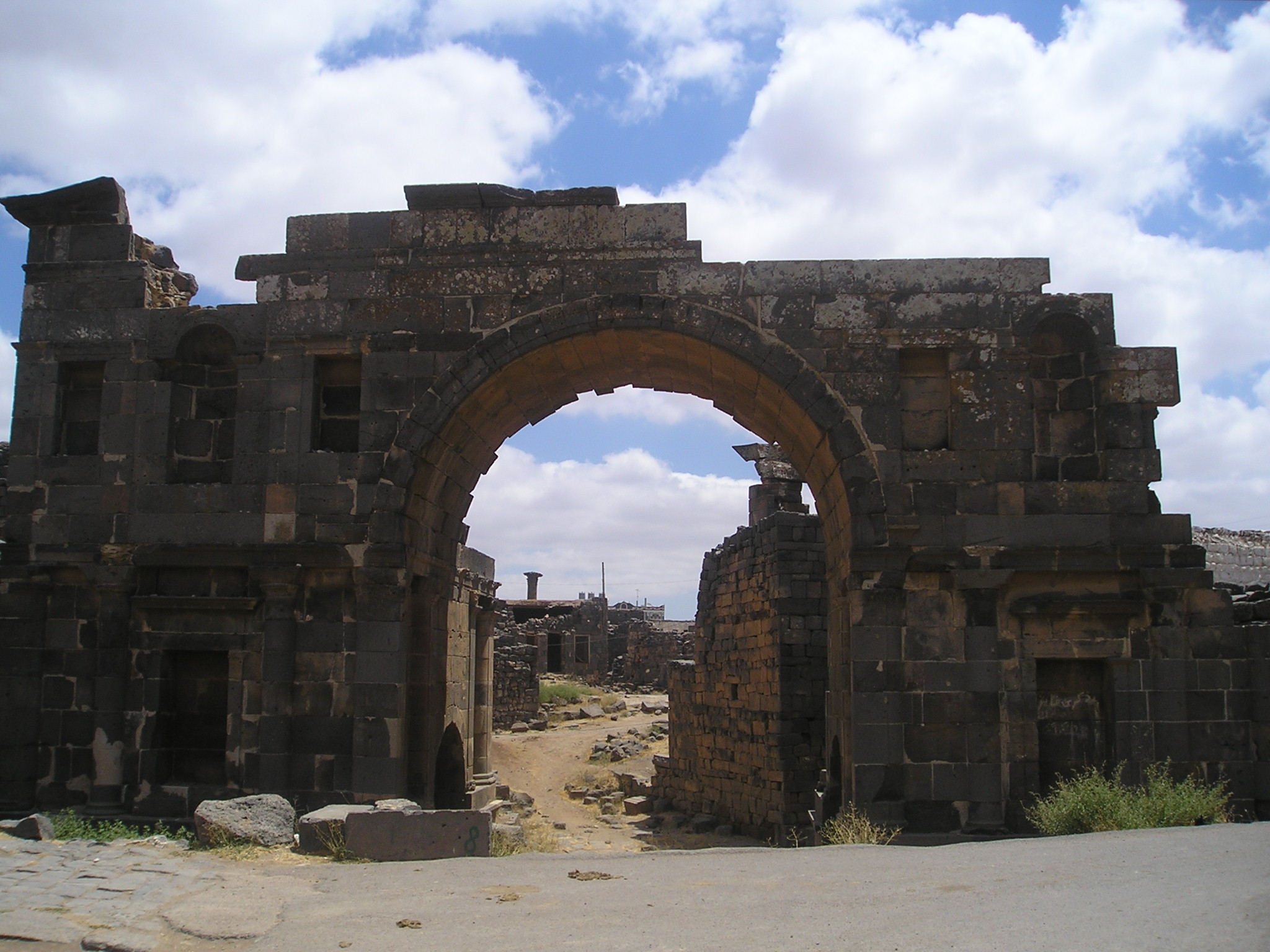 Bosra, Syria - Nabatean Arch